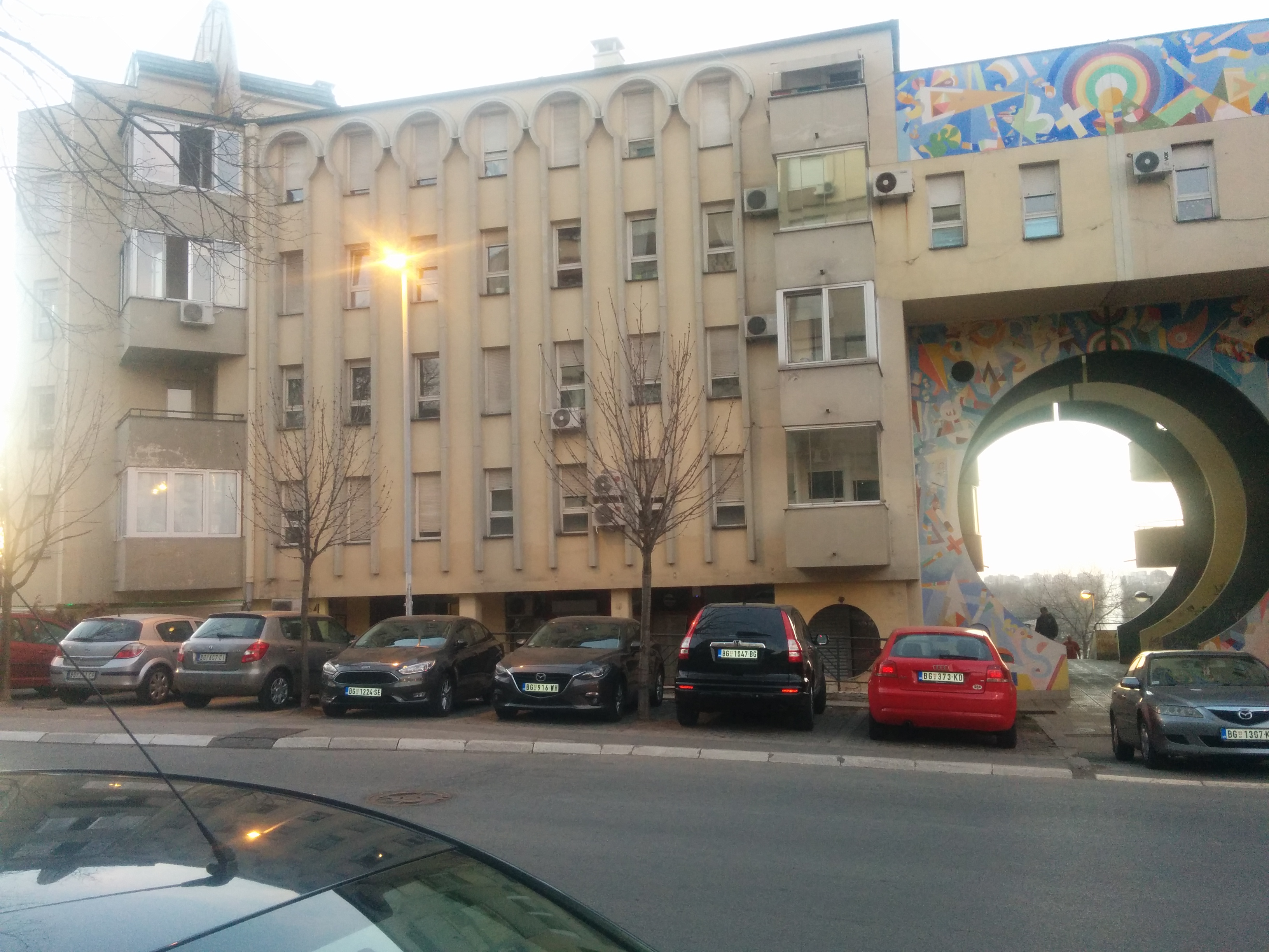 New residential building